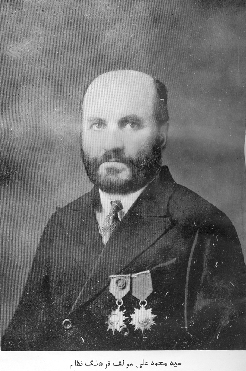 This is a picture of Seyyed Mohammad Ali Daii ol Islam, author of the Persian dictionary Farhang Nizam. I have scanned this from a copy of Farhan Nizam, a Persian dictionary published in 1926 in Haydarabad, India.